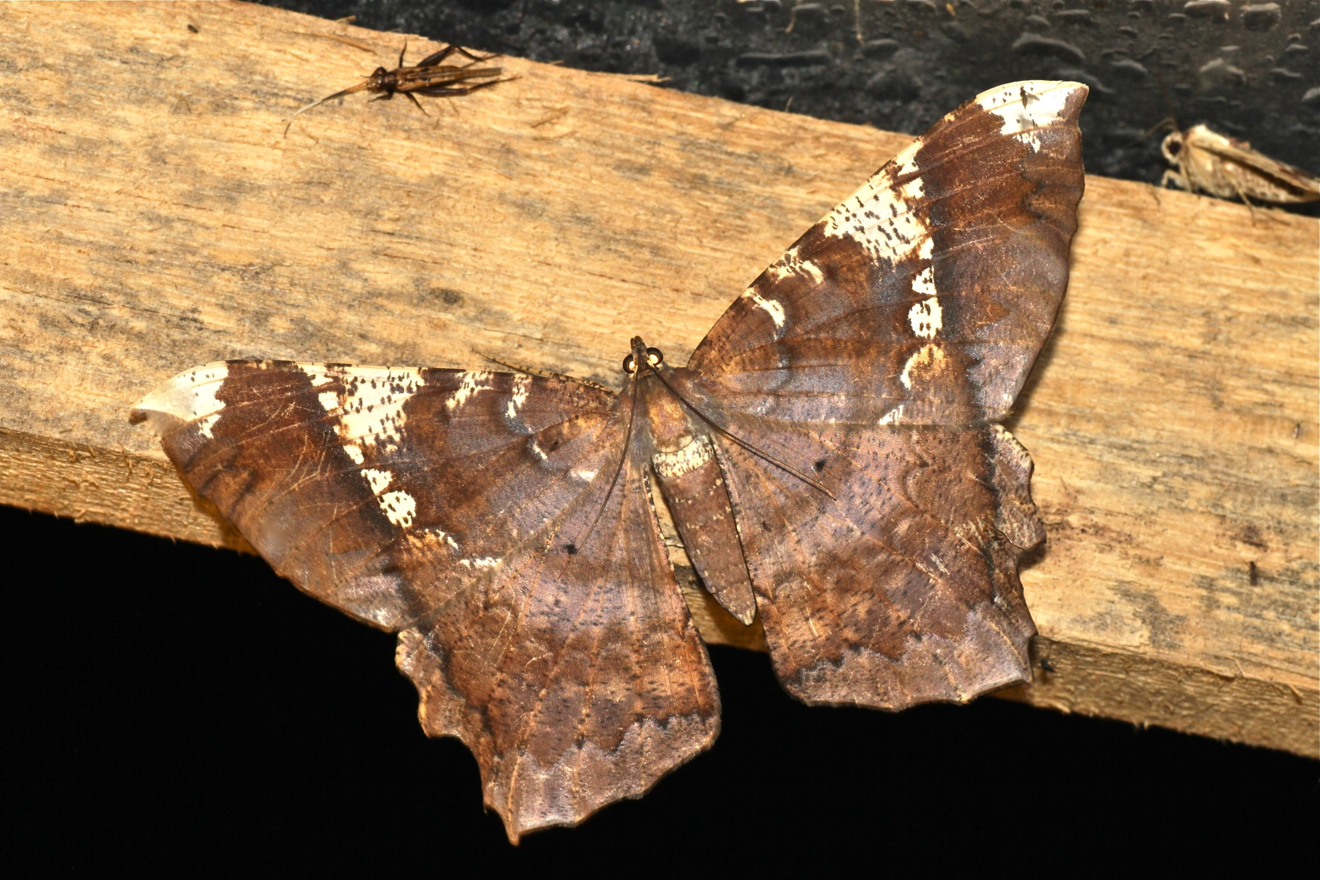 Borneo, Trusmadi area, lower montane dipterocarp forest